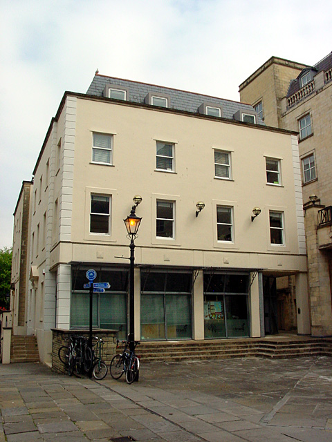 Sustrans - Home. Headquarters of Sustrans tucked into this little square next to the cathedral.